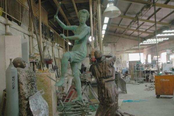 Bronze sculptures factory located in Nekofa. A look inside